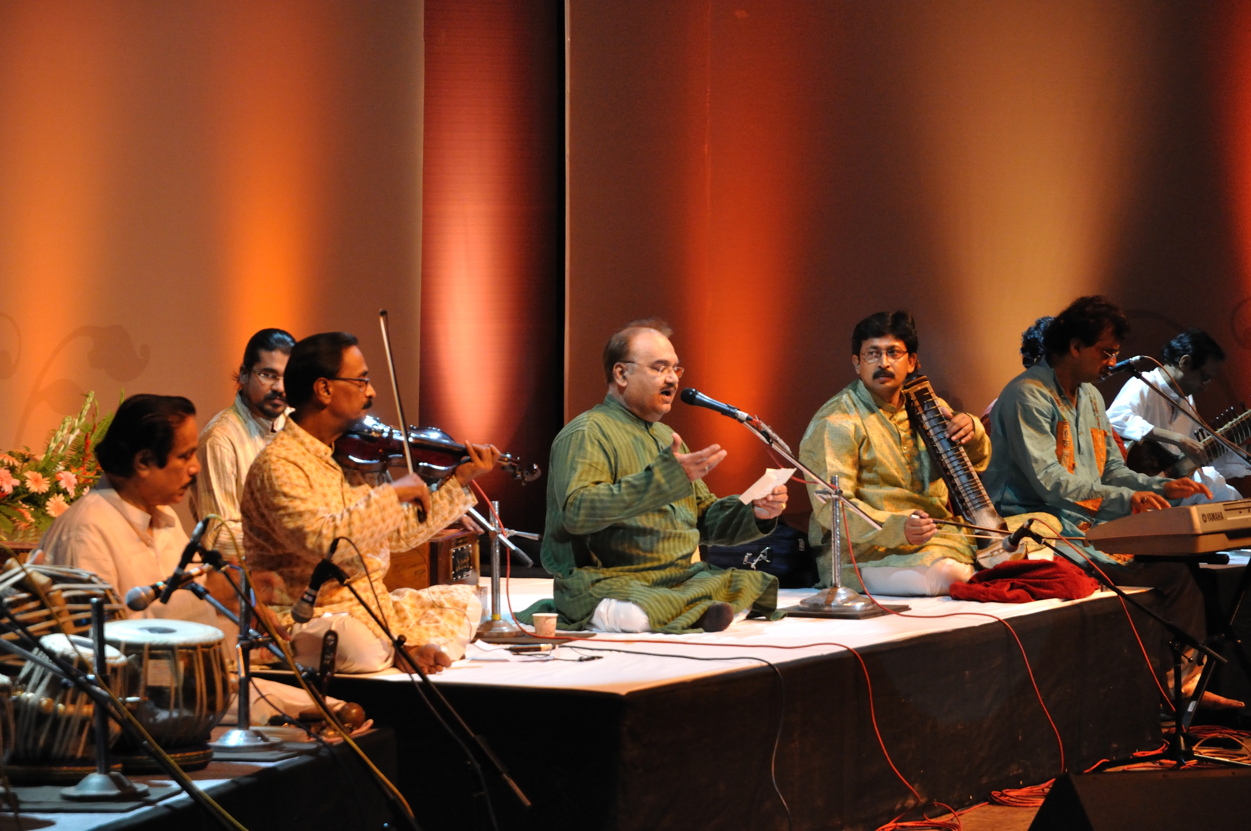 Commemoration of 150th birth anniversary of Rabindranath Tagore, organized by the Ministry of Culture, Government of India. It was an Indo-Bangladesh joint celebration, held at the Science City, Kolkata on 9 may, 2011.